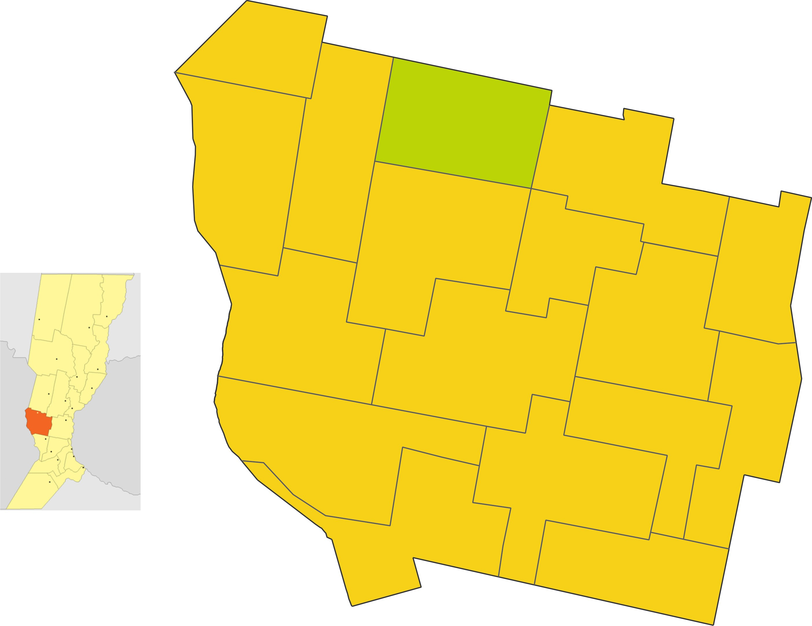 Map of the municipio de Sastre in San Martin department, Santa Fe province, Argentina